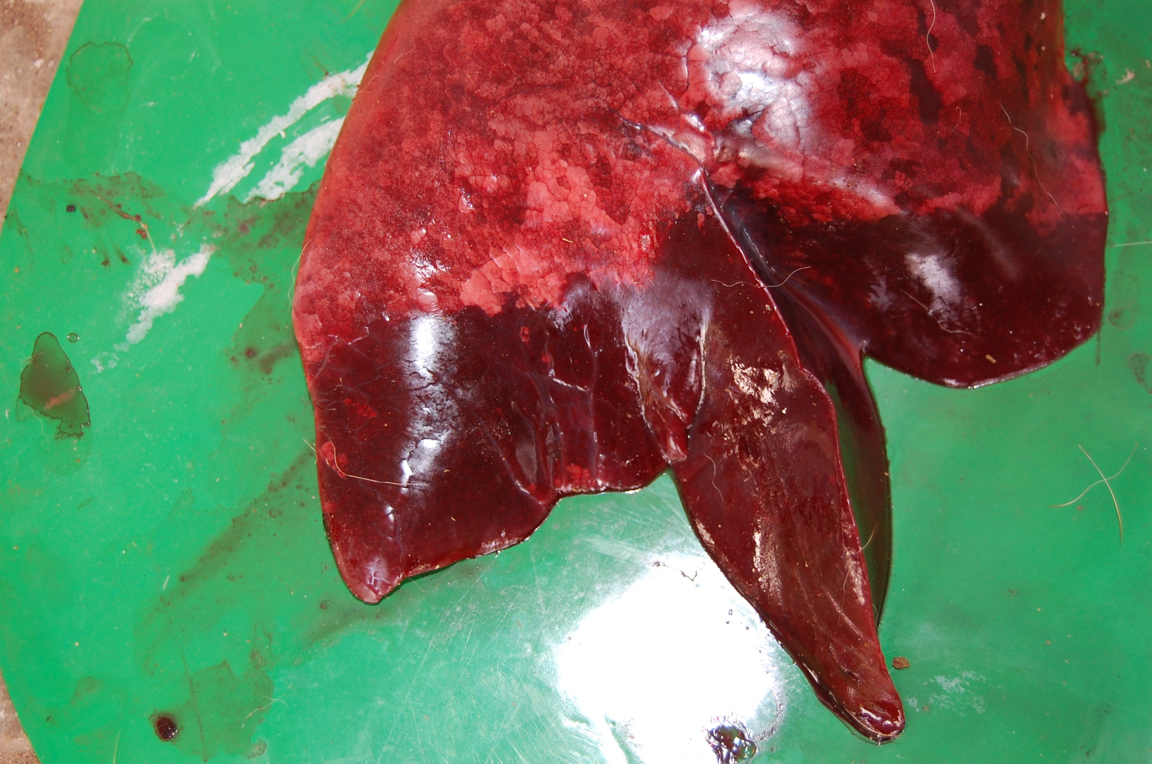 Sheep pneumonia : hepatisation of of anterior lobe (apex), of cardiac lobe (entirely) and of diaphragmatic lobe (lower extremity)